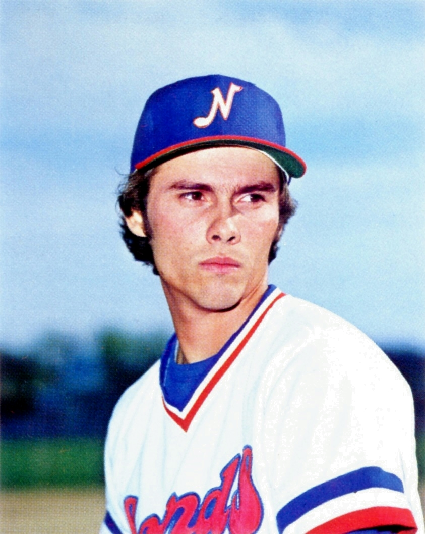 Pitcher Curt Kaufman of the 1981 Nashville Sounds Minor League Baseball team of the Southern League